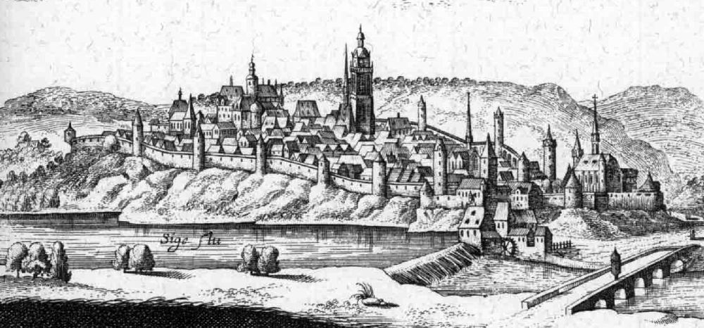 This is a scan of the historical document: Title: Siegen - Topographia Hassiae language: german